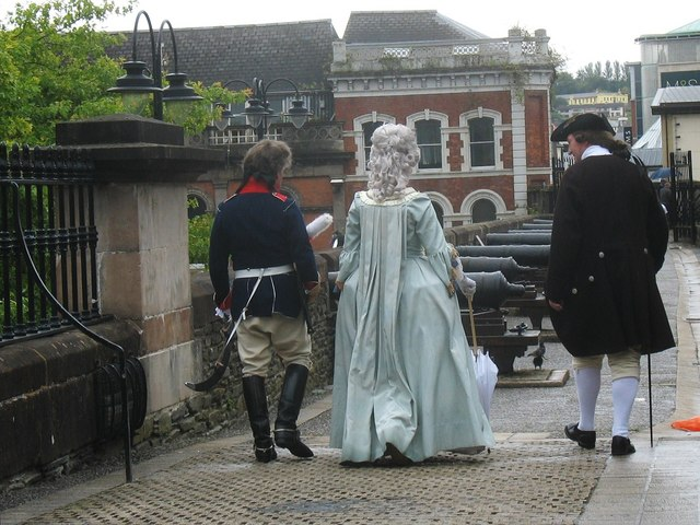 Strollers in costume crossing the Magazine Gate This is a charming reminder of a gentler and less hectic age.